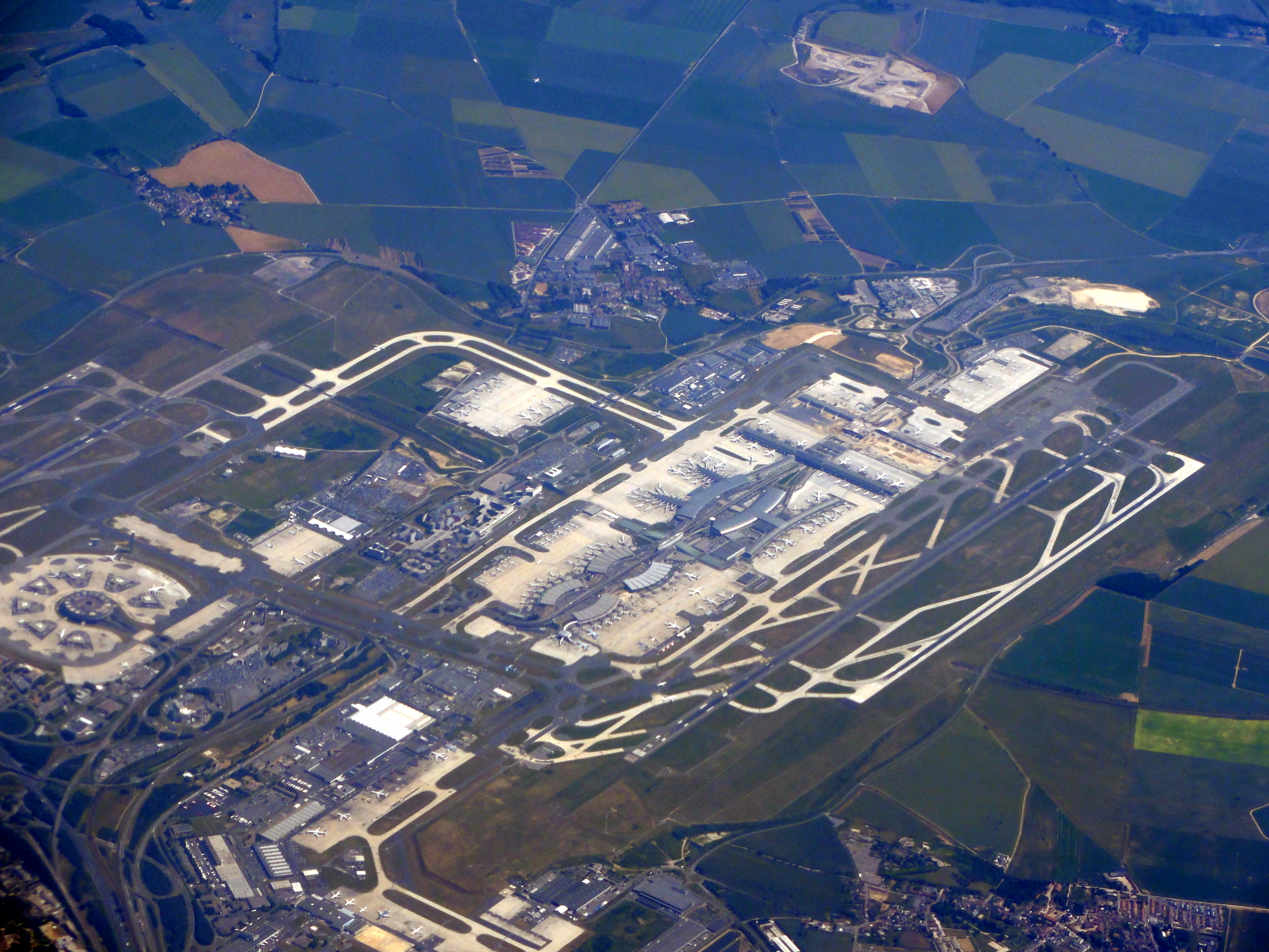 Aerial view of Paris-Charles de Gaulle airport (EXIF location wrong)